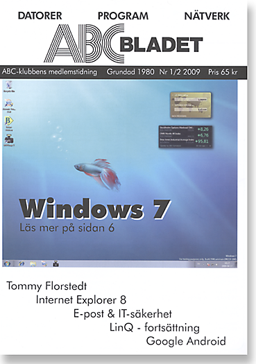 This is the front page of ABC-bladet, a paper published by the swedish computer club "ABC-klubben". The copyright holder has permitted the uploader to use it freely on Wikipedia and other services, as long as the free licence is upholded.